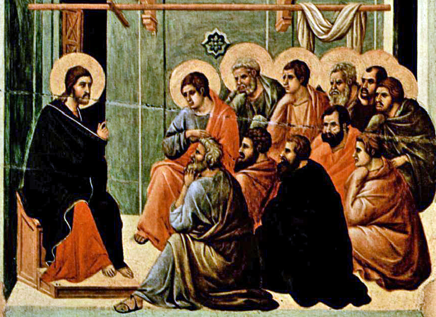 Detail of Christ's Farewell to his Apostles